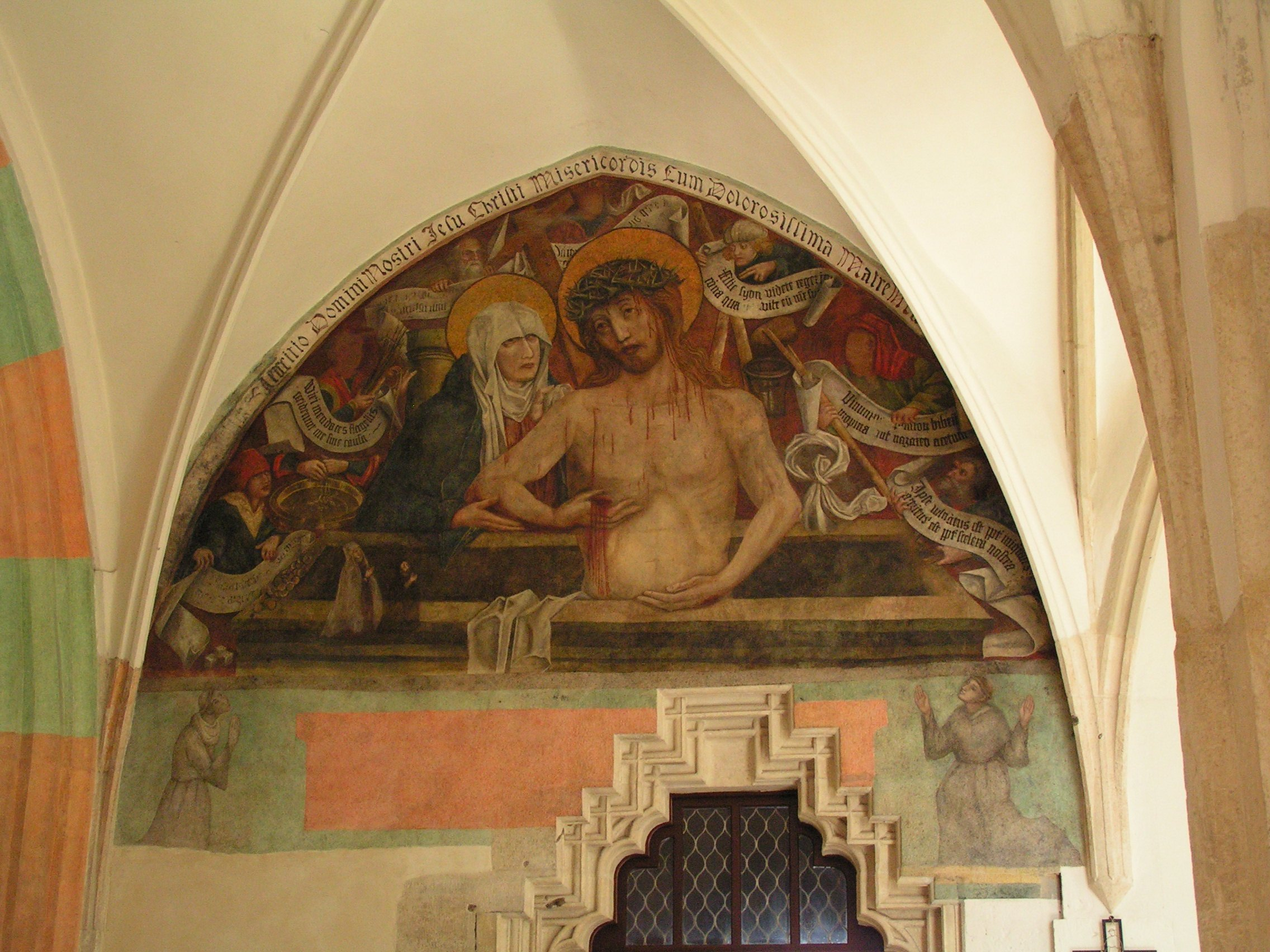 Church of St. Catherine in Kraków, Poland